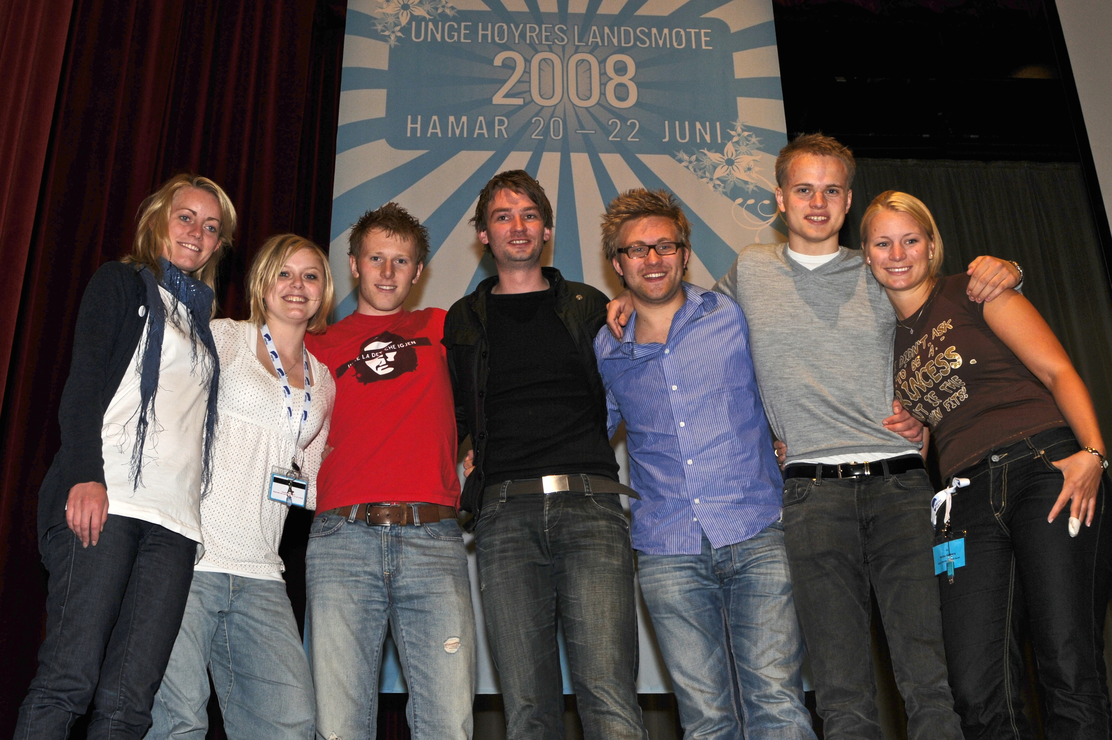 Central board of the Norwegian Young Conservatives 2008–2010 at the 2008 National Convention in Hamar. From left: Camilla Strandskog, Tina Bru, Eivind Saga (vice chair), Henrik Asheim (chair), Stefan Heggelund (vice chair), Rolf Erik Tveten and Rikke Sjøberg.